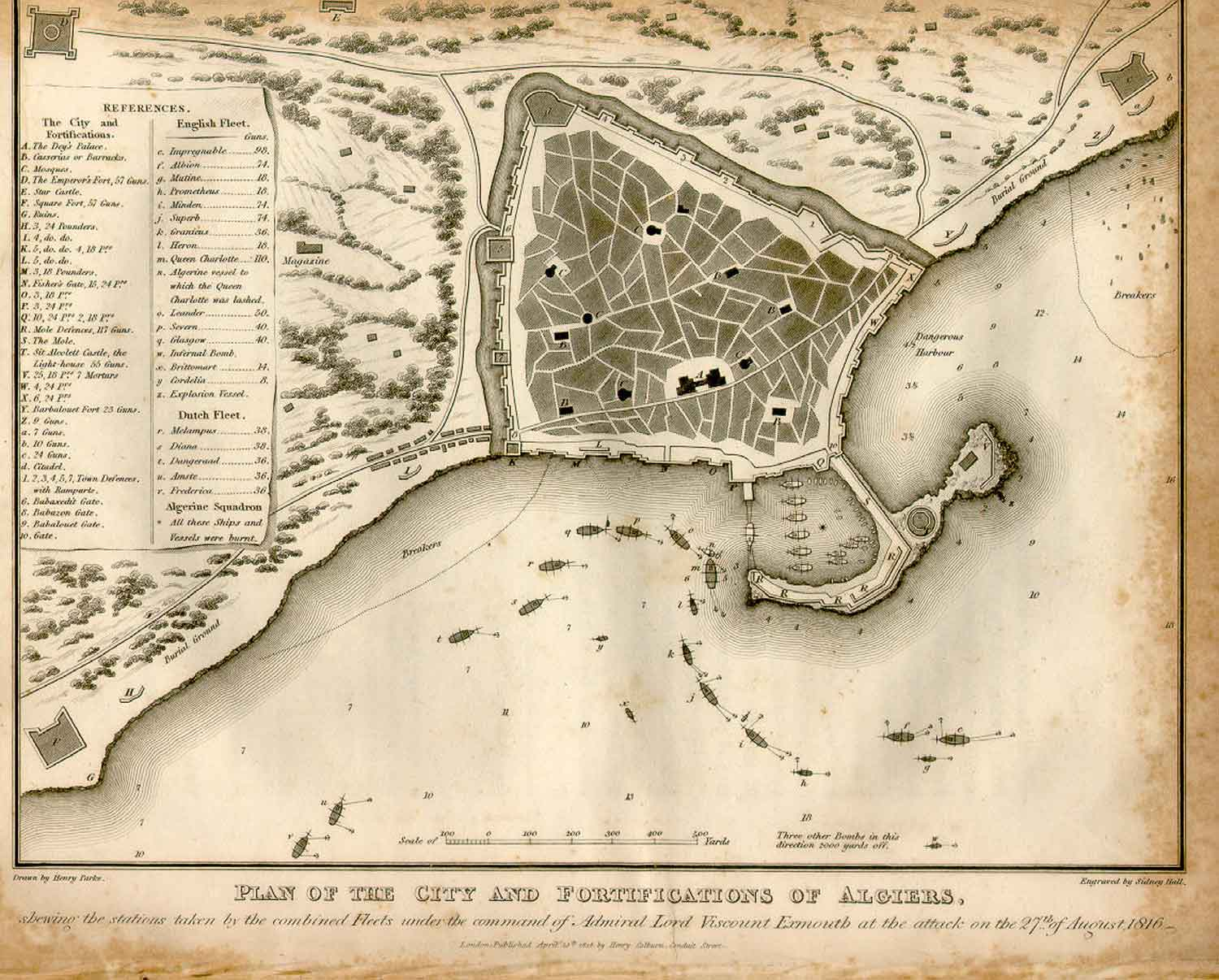 Plan of the city and fortifications of Algiers, showing the stations taken by the combined Fleets under the command of Admiral Lord Viscount Exmouth at the attack on the 27th of August 1816.